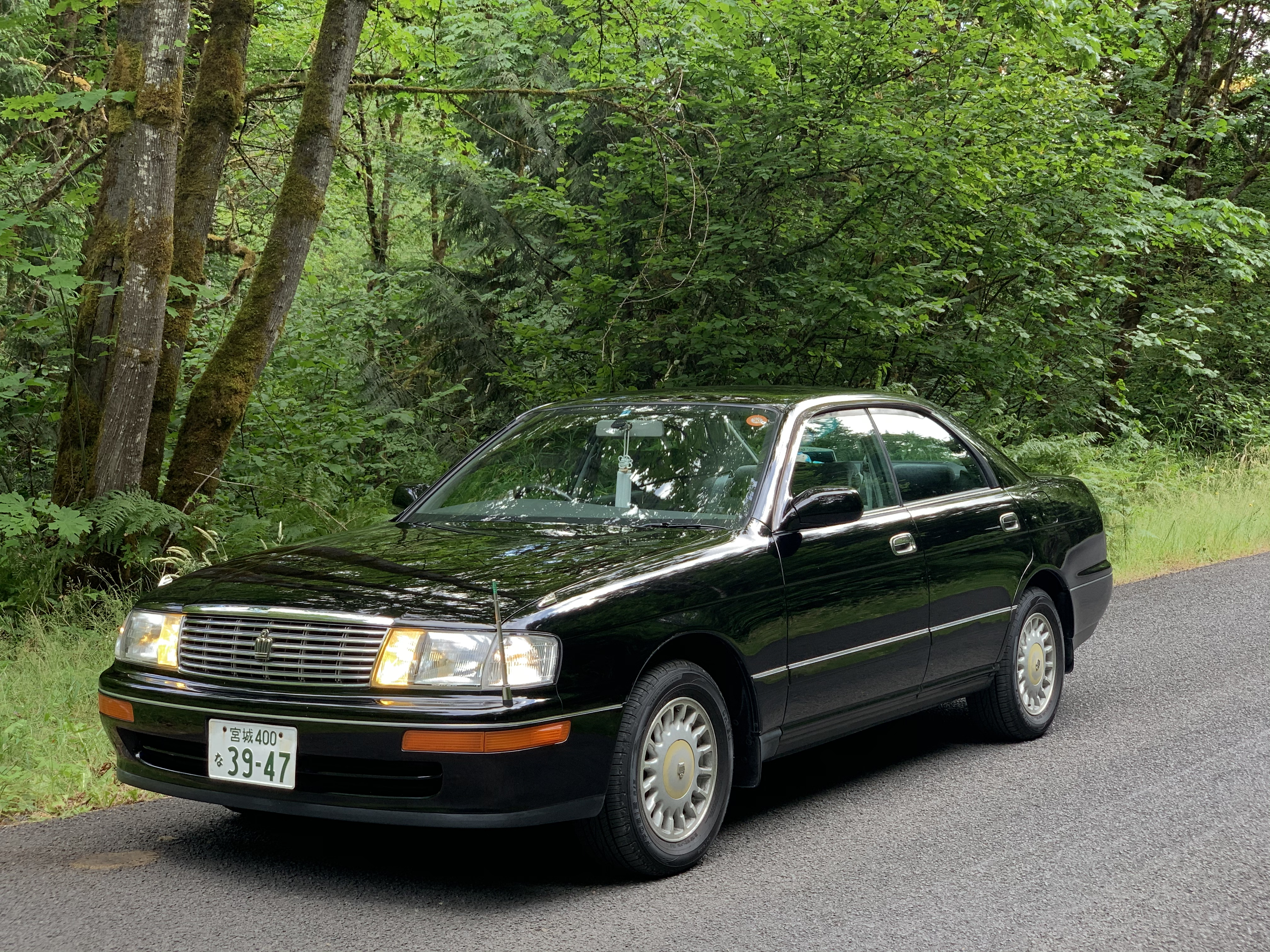 A 1993 Toyota Crown Royal Touring Owners Prestige series model. Equipped with the 1JZ-GE engine option.